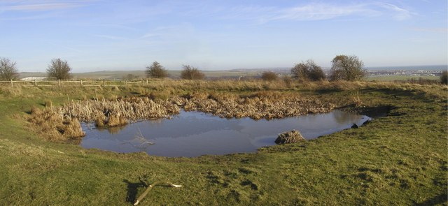 The Dewpond on Lancing Ring The restored dewpond